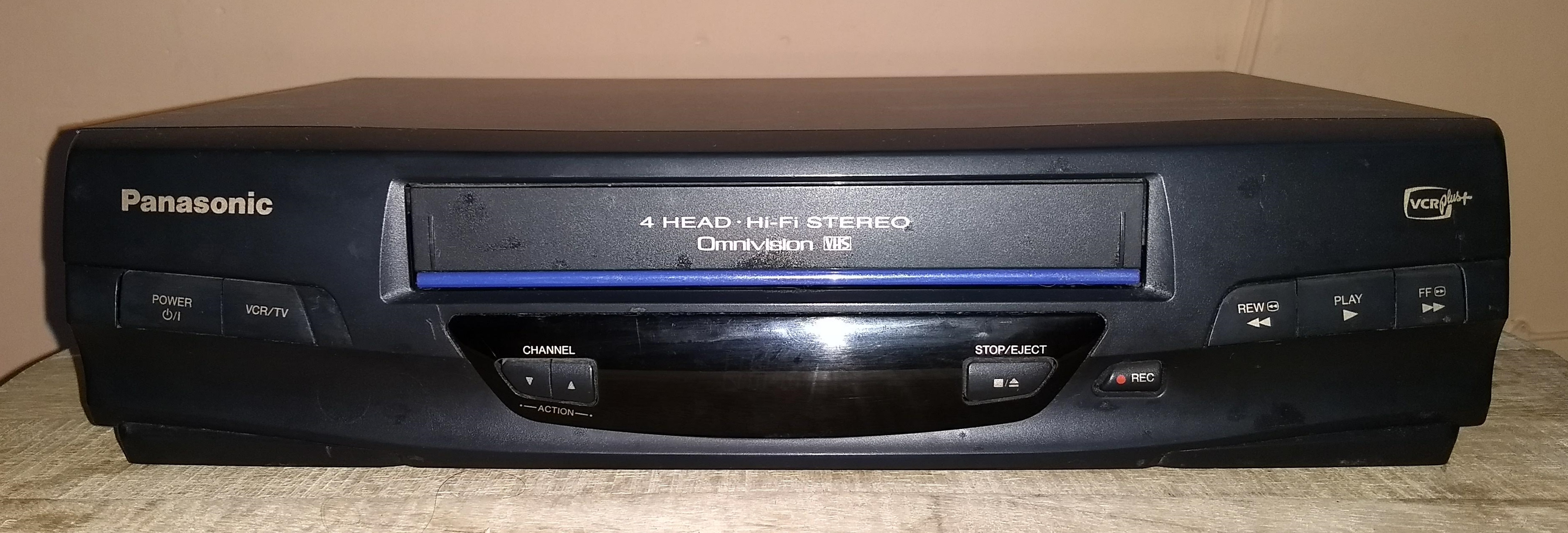 A Panasonic VCR Omnivision Stereo 4-Head model PV-V4520